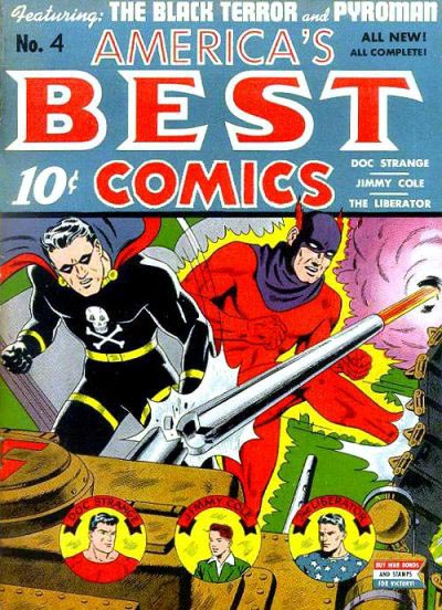 America's Best Comics #4, February 1943